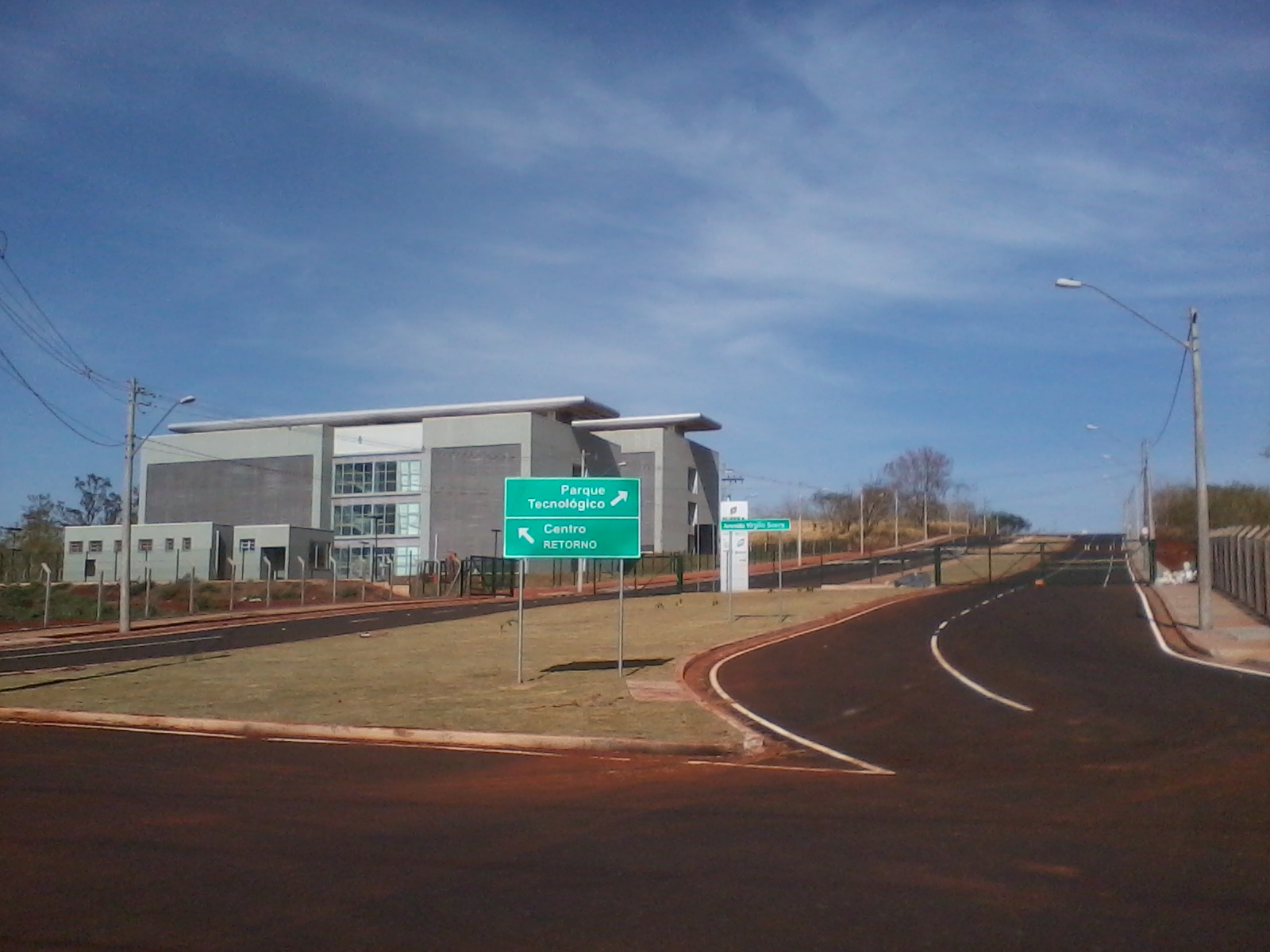 Technological Park of Ribeirão Preto, São Paulo State.